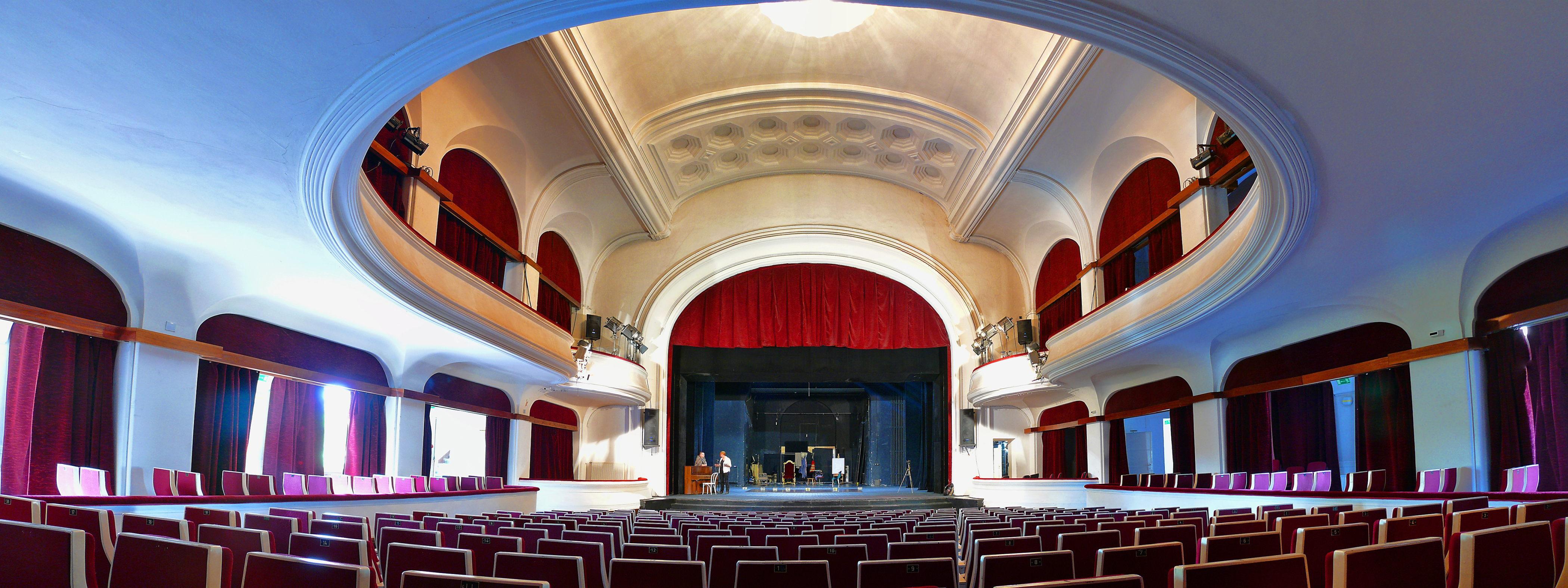 Spectators seating and the scene of theatre in Jelenia Góra